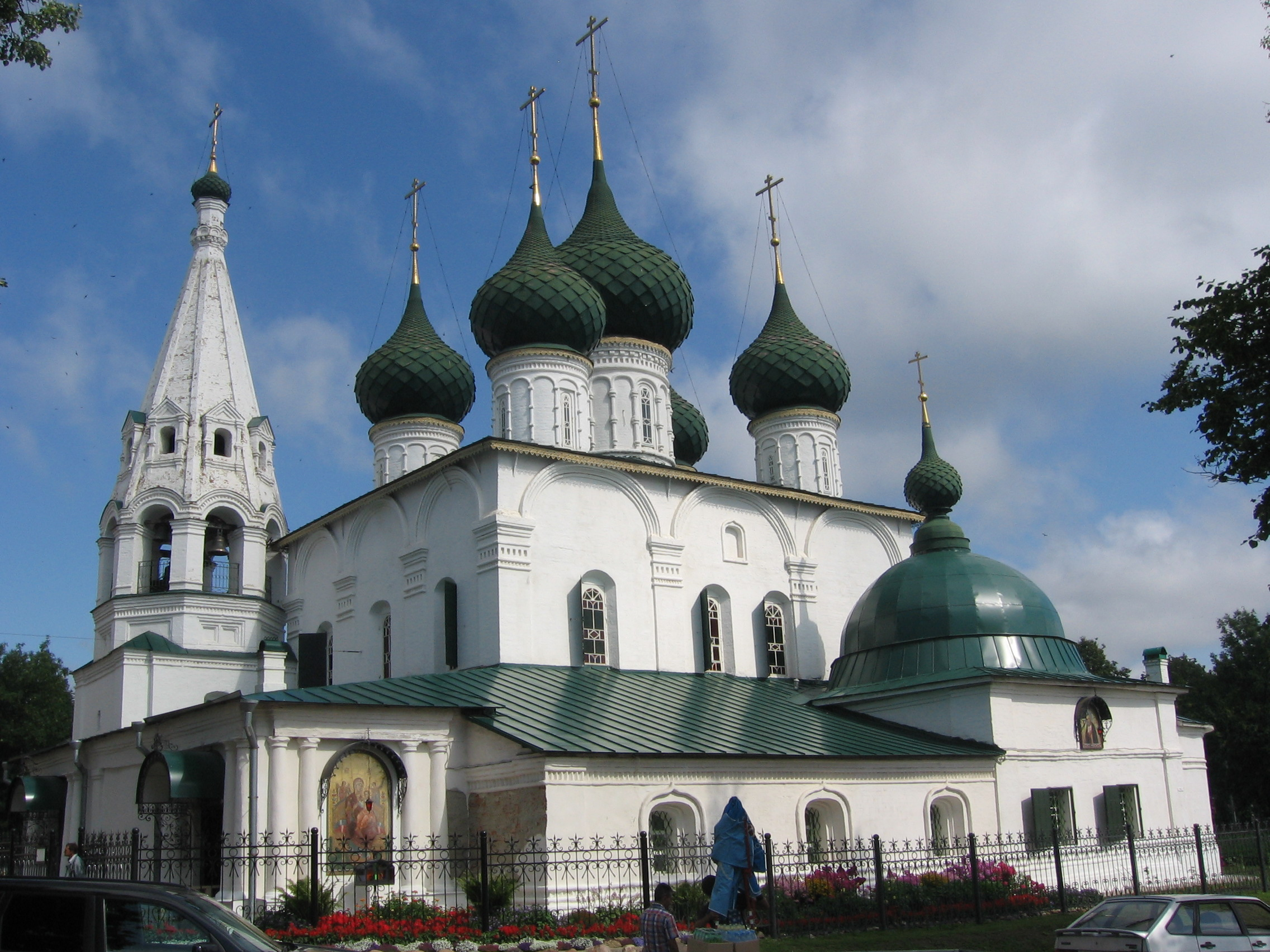 Church of the Saviour in the town in Yaroslavl, Russia